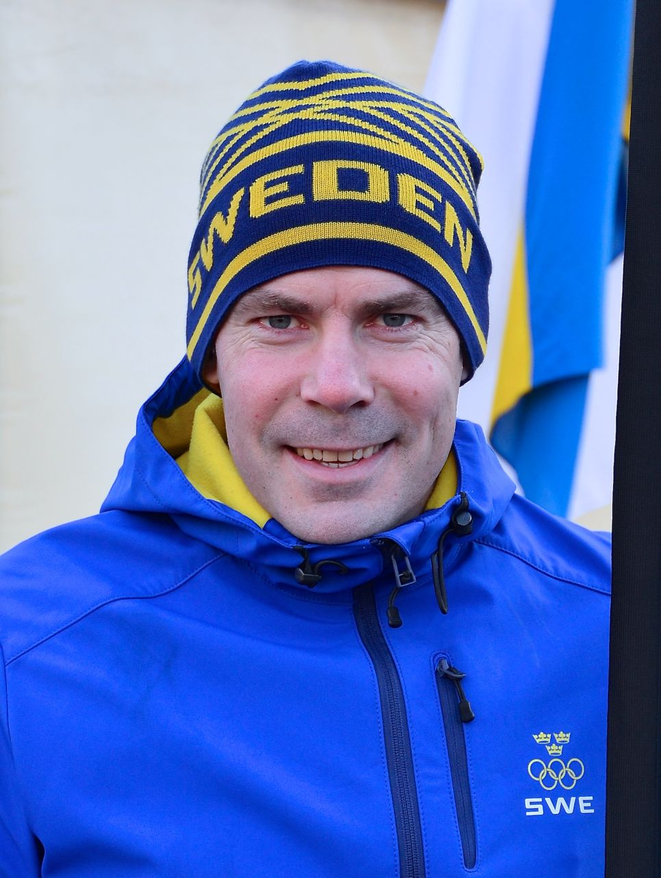 Markus Oscarsson in the Royal Garden February 22, 2014 in conjunction with the Stockholm Sports Management SOK with Olympic Day.